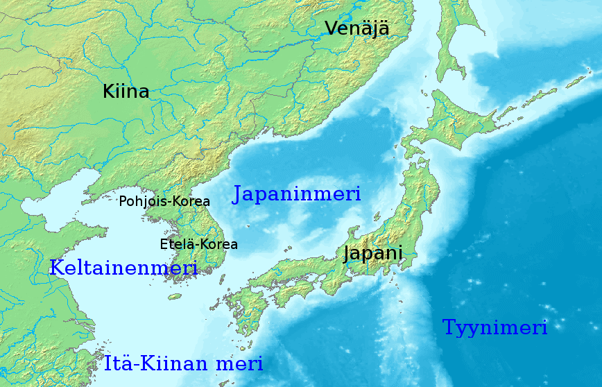 Map of the Sea of Japan in Finnish